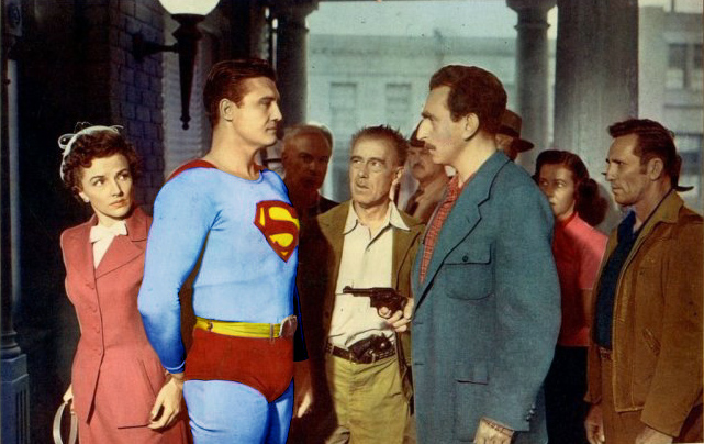 Cropped and edited version of this file, featuring George Reeves as Superman. This image is in the public domain, as no copyright notice was attached to the original.